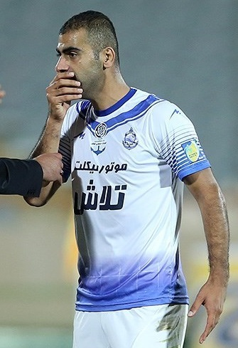 Maziar Zaree